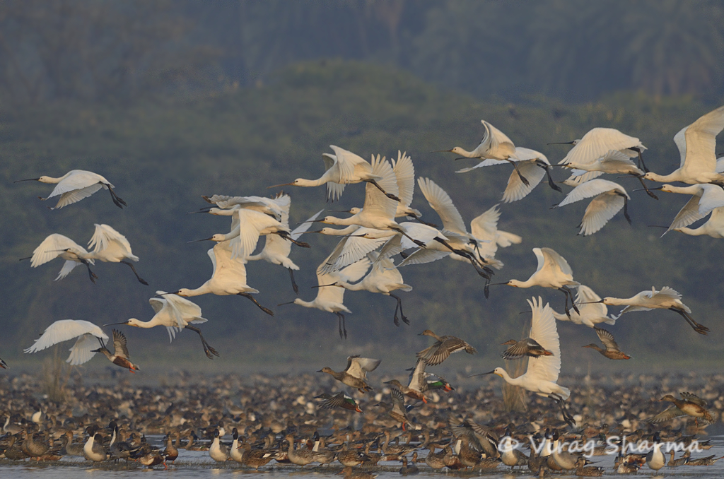 Patna Bird sanctury view in winter Jan 2015